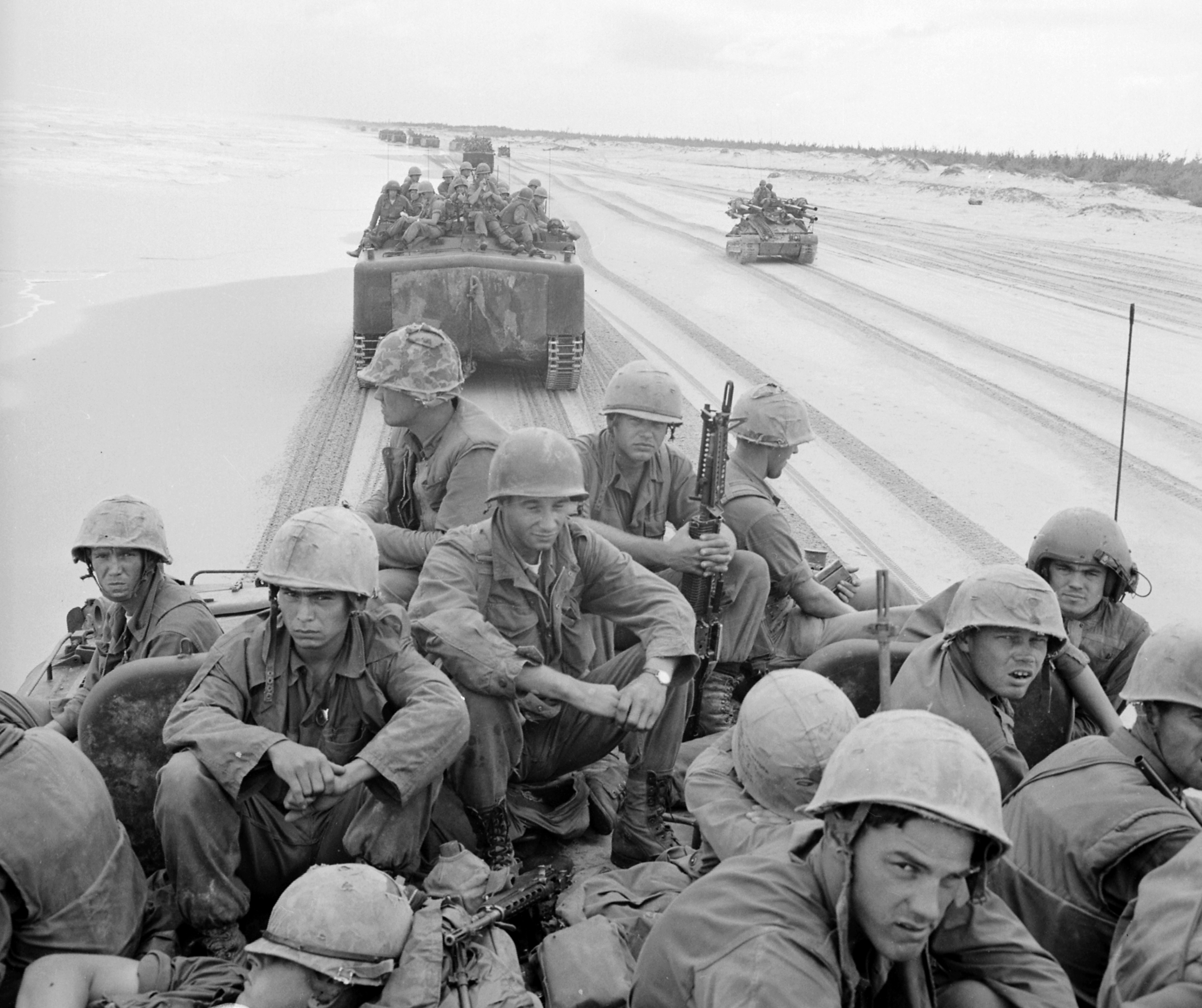 U.S. Marine Corps LVTP-5 amphibious tractors transport 3rd Marine Division troops in Vietnam, 1966.